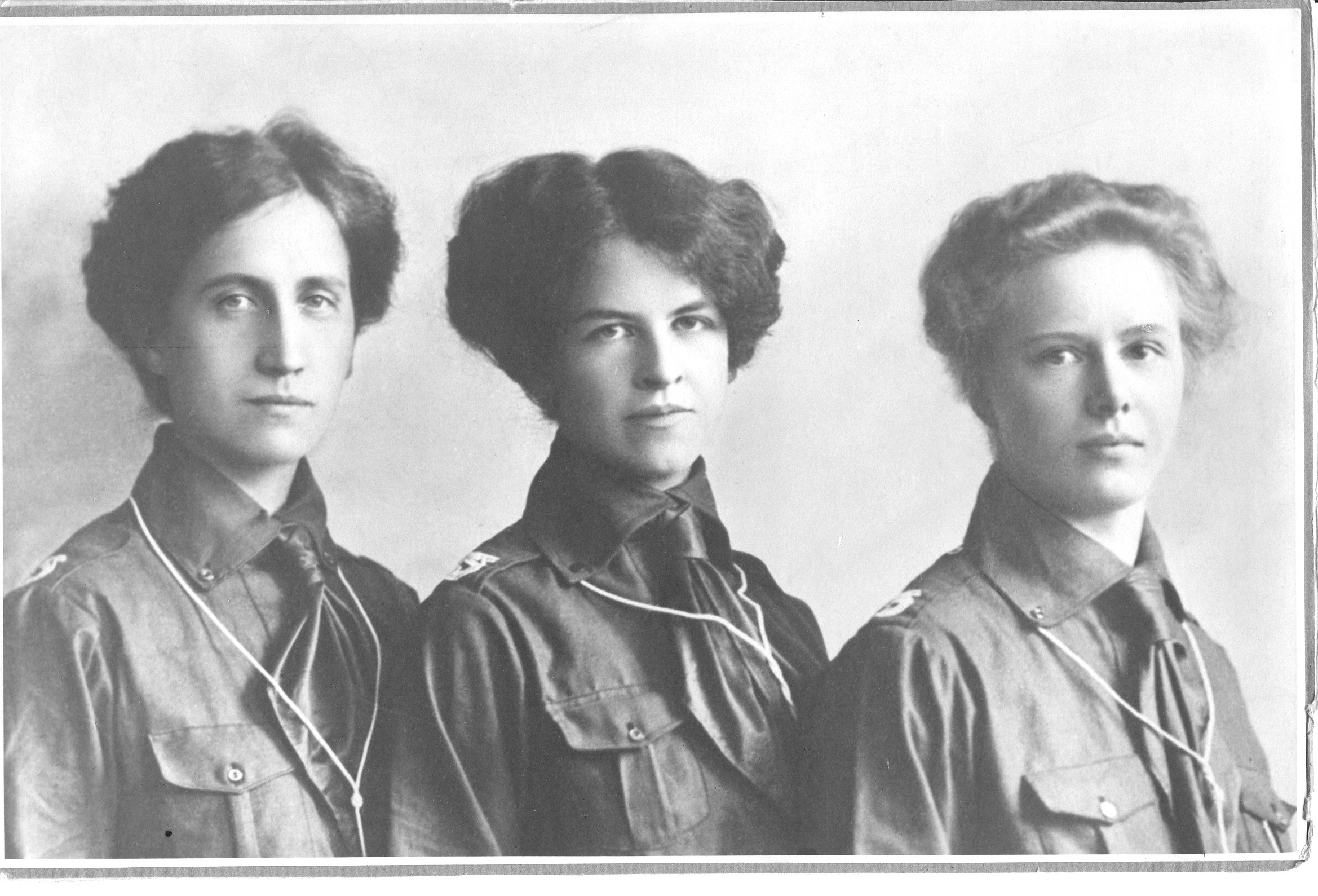 De första svenska flickscoutledarna, lärarna vid Wallinska skolan Ester Laurell (Sem), Signe Hammarsten (Ham) and Emmy Grén-Broberg (Bro)